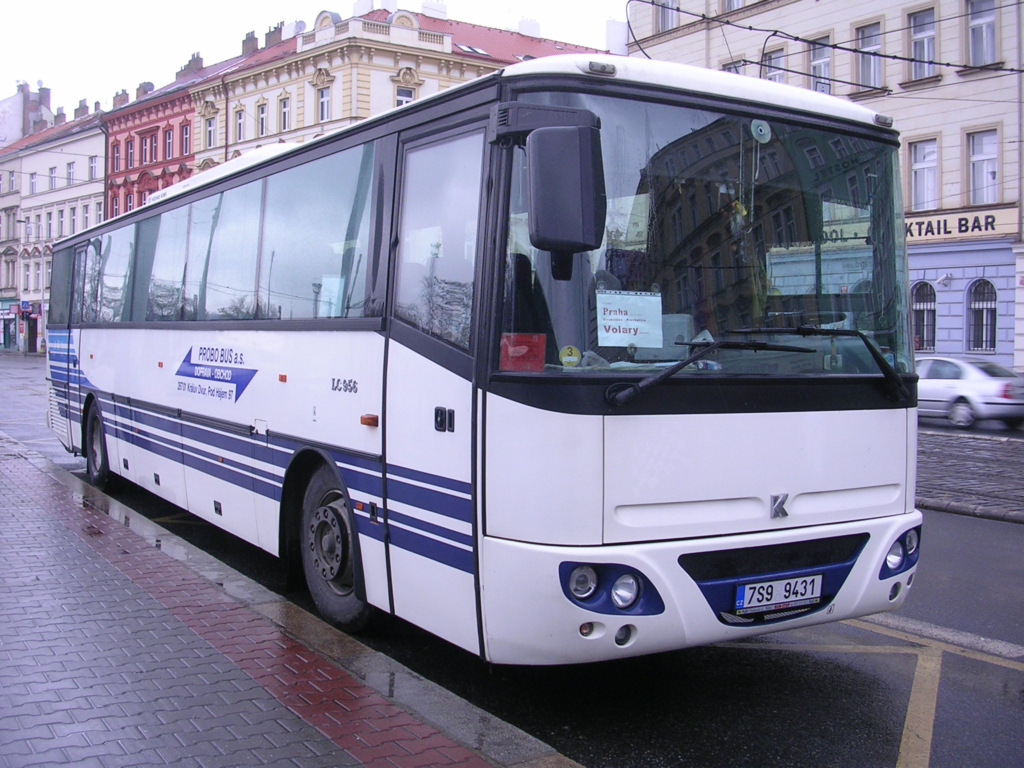 Prague, Smíchov, the Czech Republic. A bus of PROBO BUS.